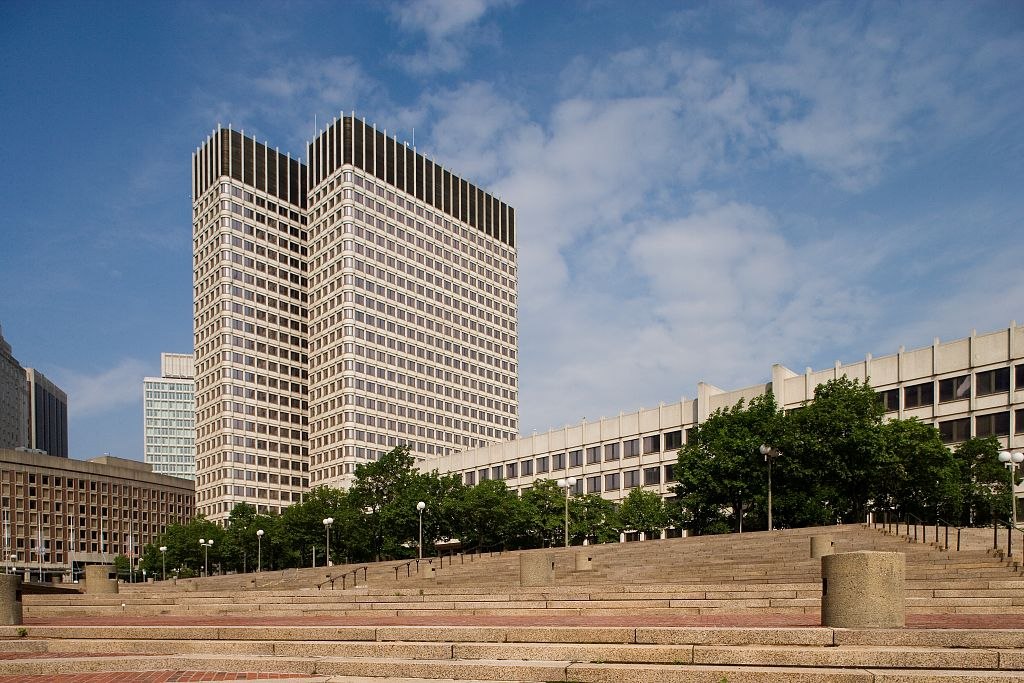 John F. Kennedy Federal Building in Boston, Massachusetts. Creator(s): Highsmith, Carol M., 1946-, photographer. Date Created/Published: 2006 May 28. Repository: Library of Congress Prints and Photographs Division Washington, D.C. 20540 USA